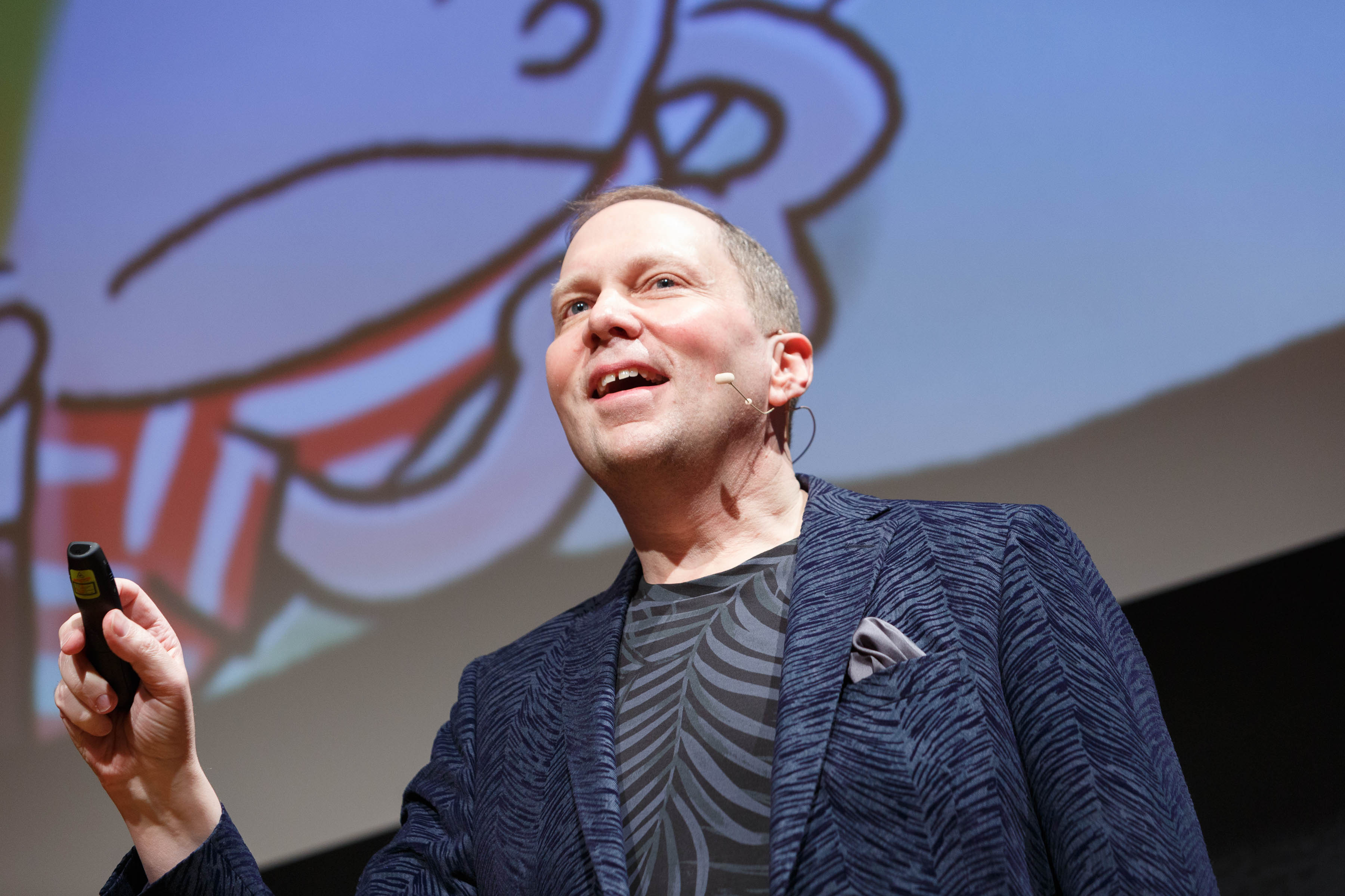 "Dog Man" series author Dav Pilkey speaks during a "National Book Festival Presents" event, October 11, 2019. Photo by Shawn Miller/Library of Congress. Note: Privacy and publicity rights for individuals depicted may apply.